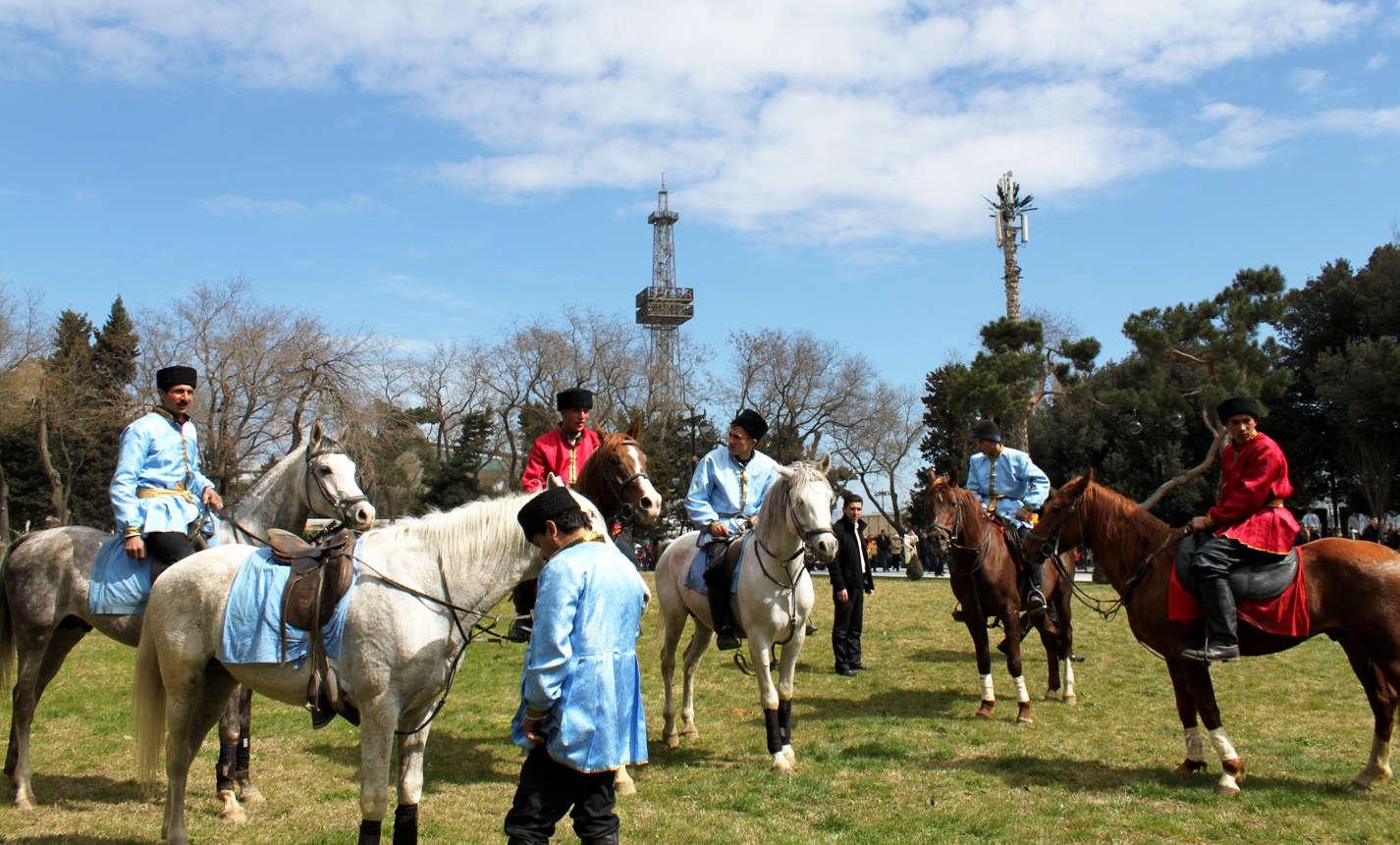 Celebration in bulvar in Baku